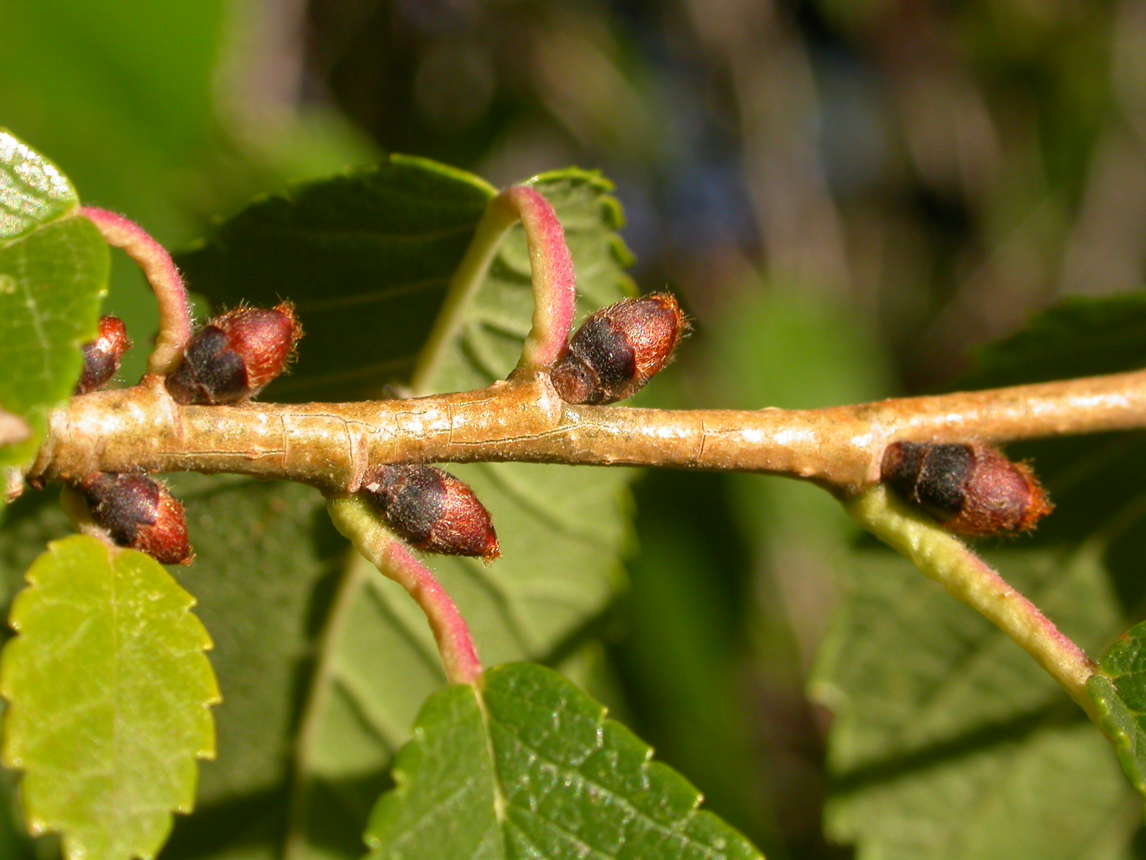 The buds of the Siberian elm are short and squat and tend to project upward relative to the orientation of the subtending branch.